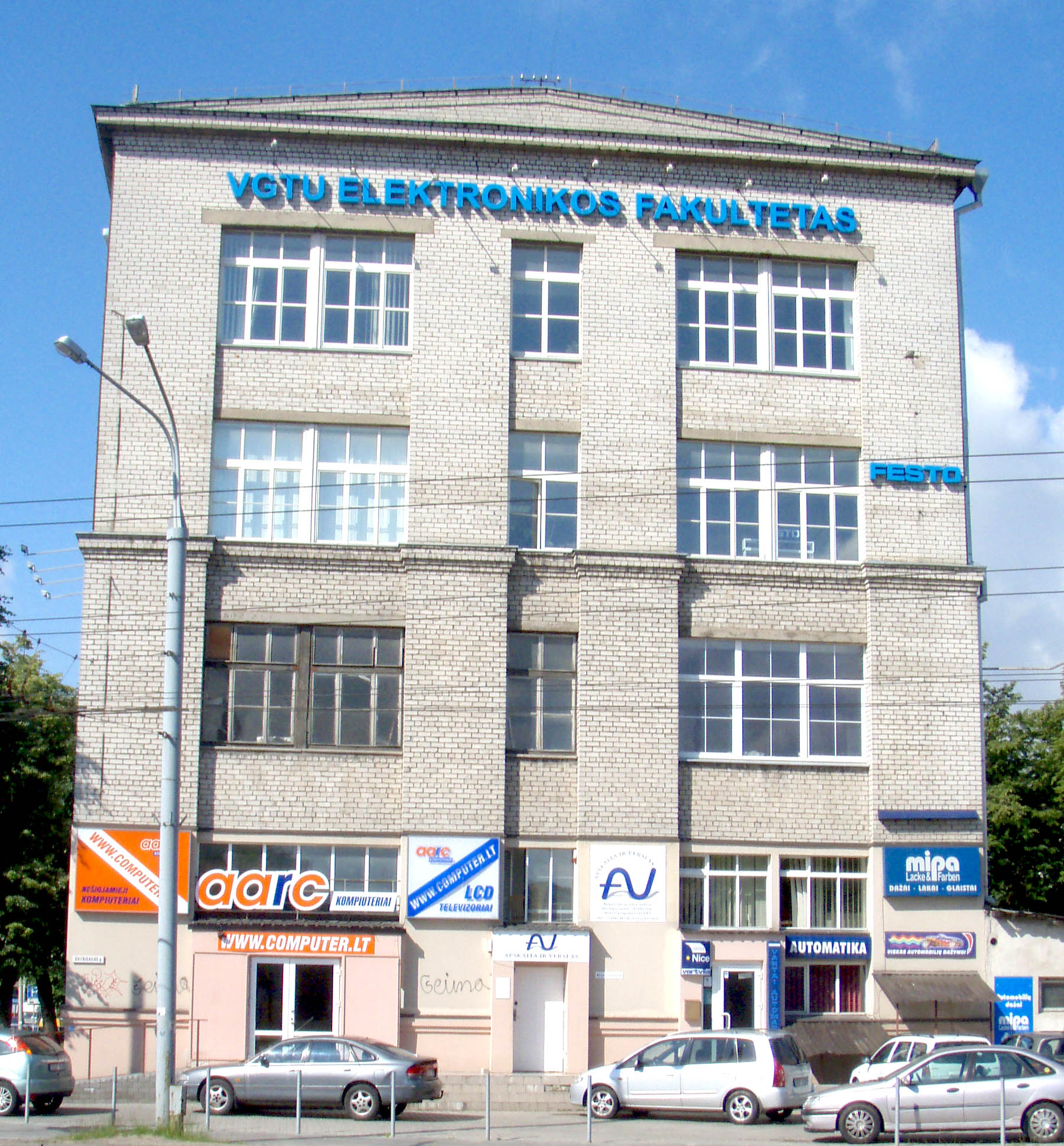 Vilnius Gedeminas technical university, electronics faculty, Lithuania